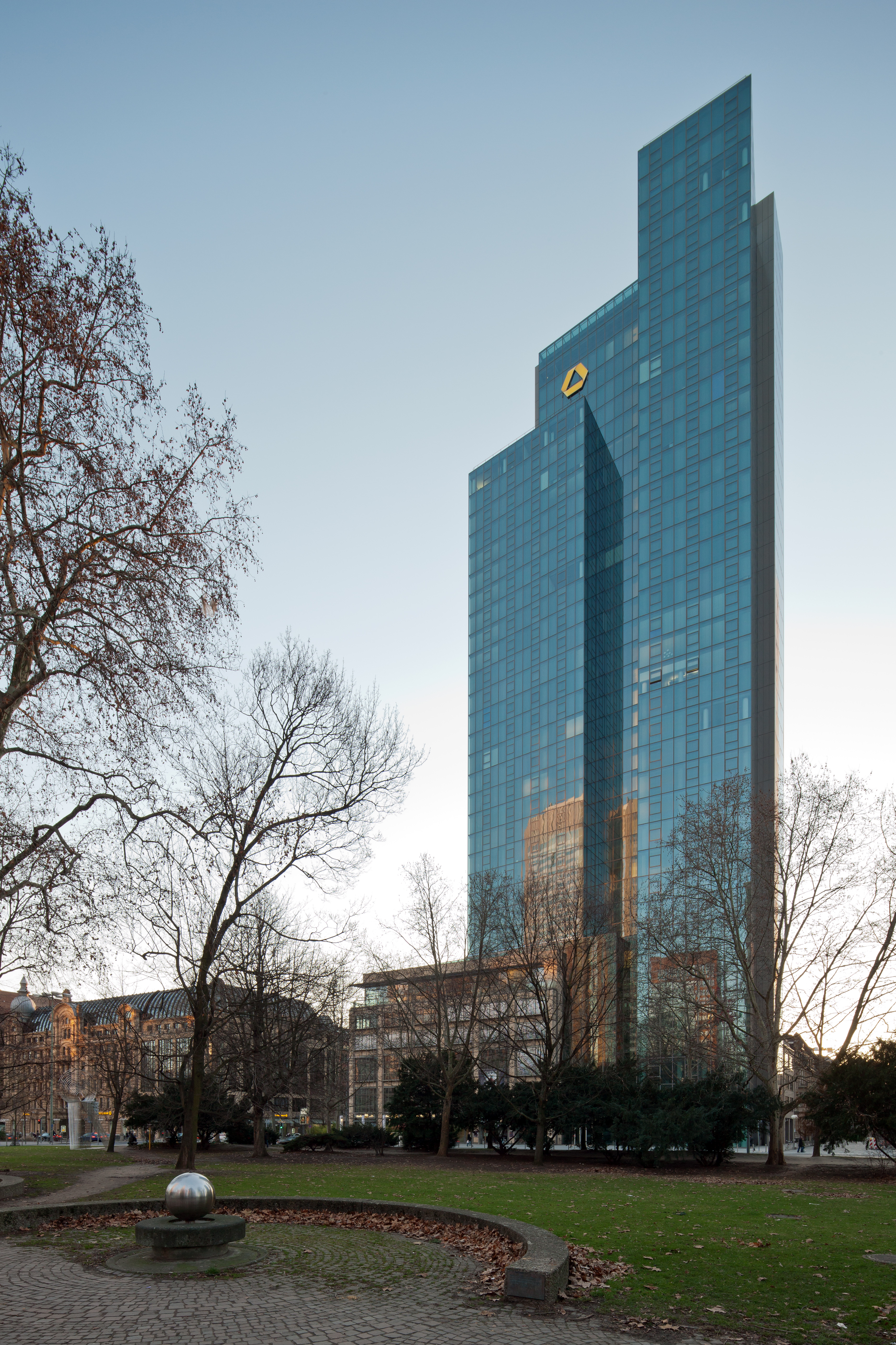 Frankfurt on the Main: Gallileo as seen from the northeast